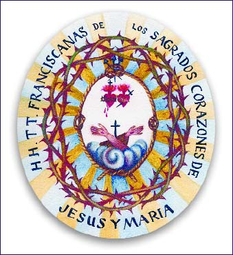 First emblem of religious congregation of Franciscan Tertiaries of the Sacred Hearths of Jesus and Mary, founded in 1884 by Carmen González